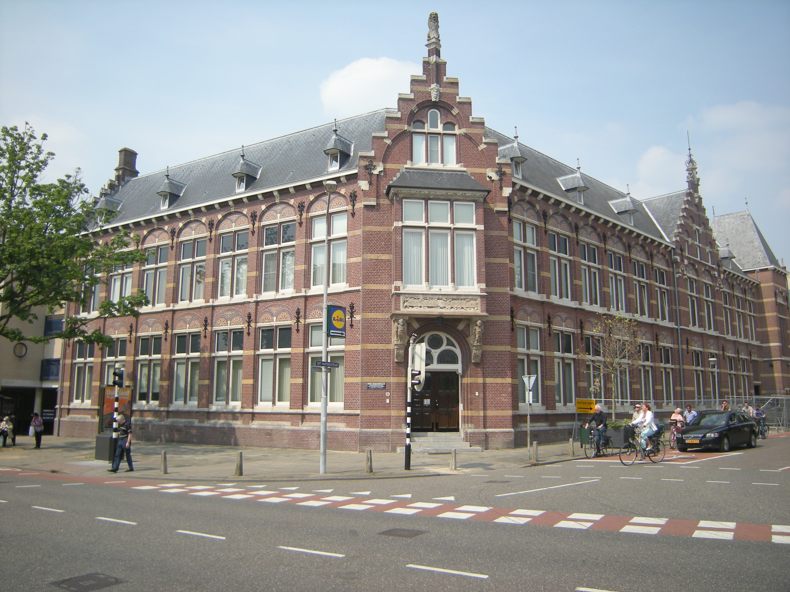 former highschool Venlo